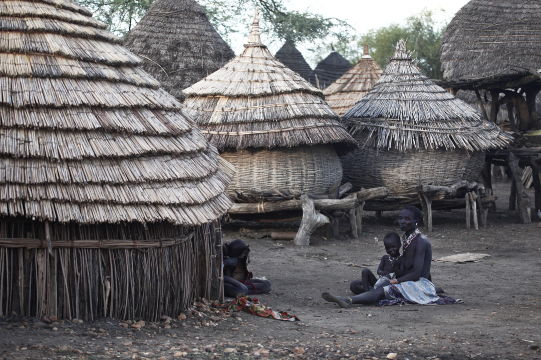 Toposa settlement in South Sudan